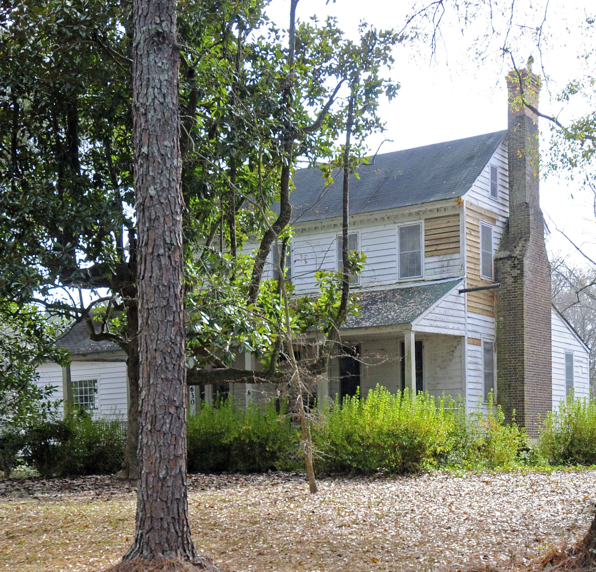 Roberston Easterling McLaurin House, Marlboro County, South Carolina